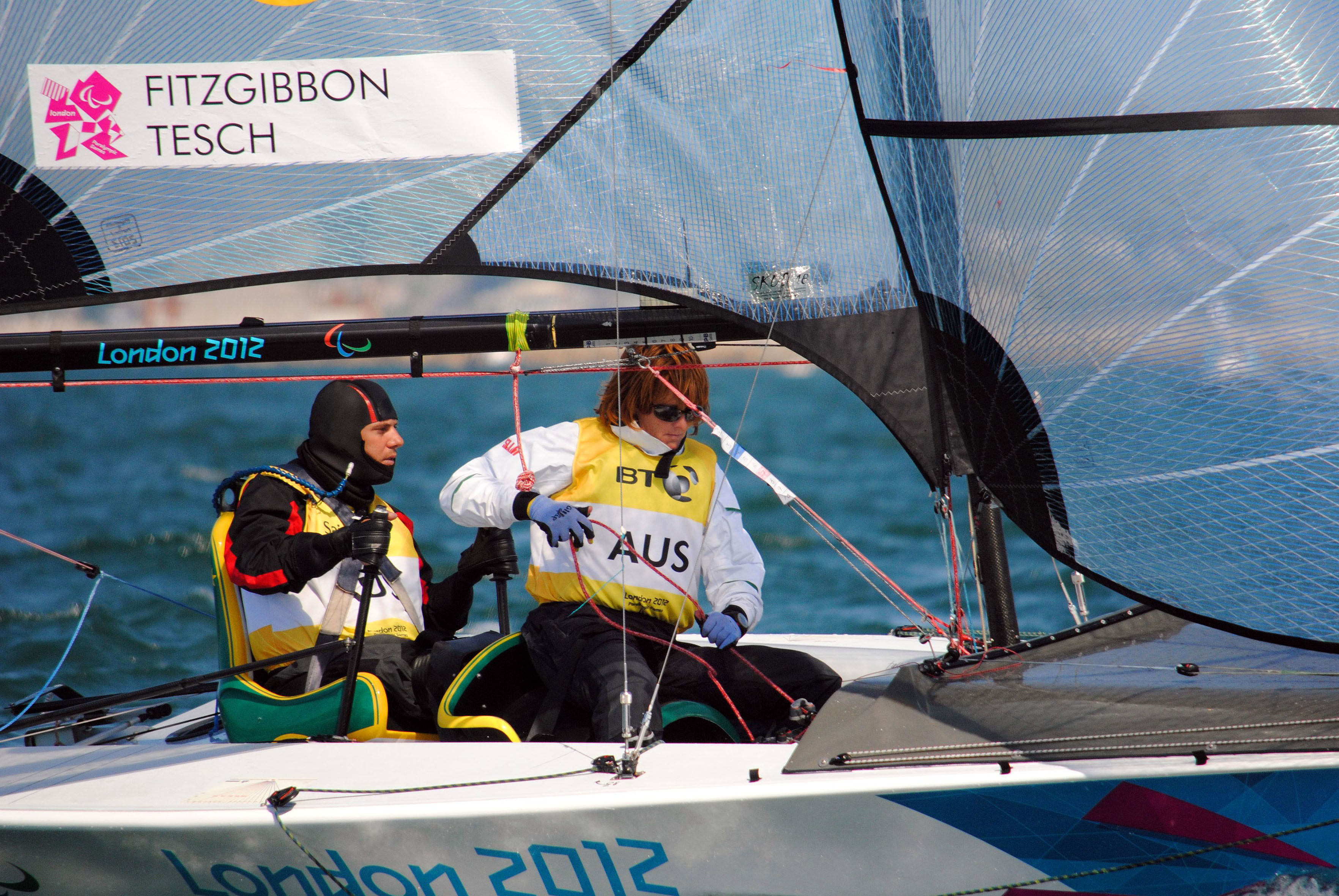 Photograph of Australian Paralympic team members Daniel Fitzgibbon & Liesl Tesch at the 2012 Summer Paralympic Games in London